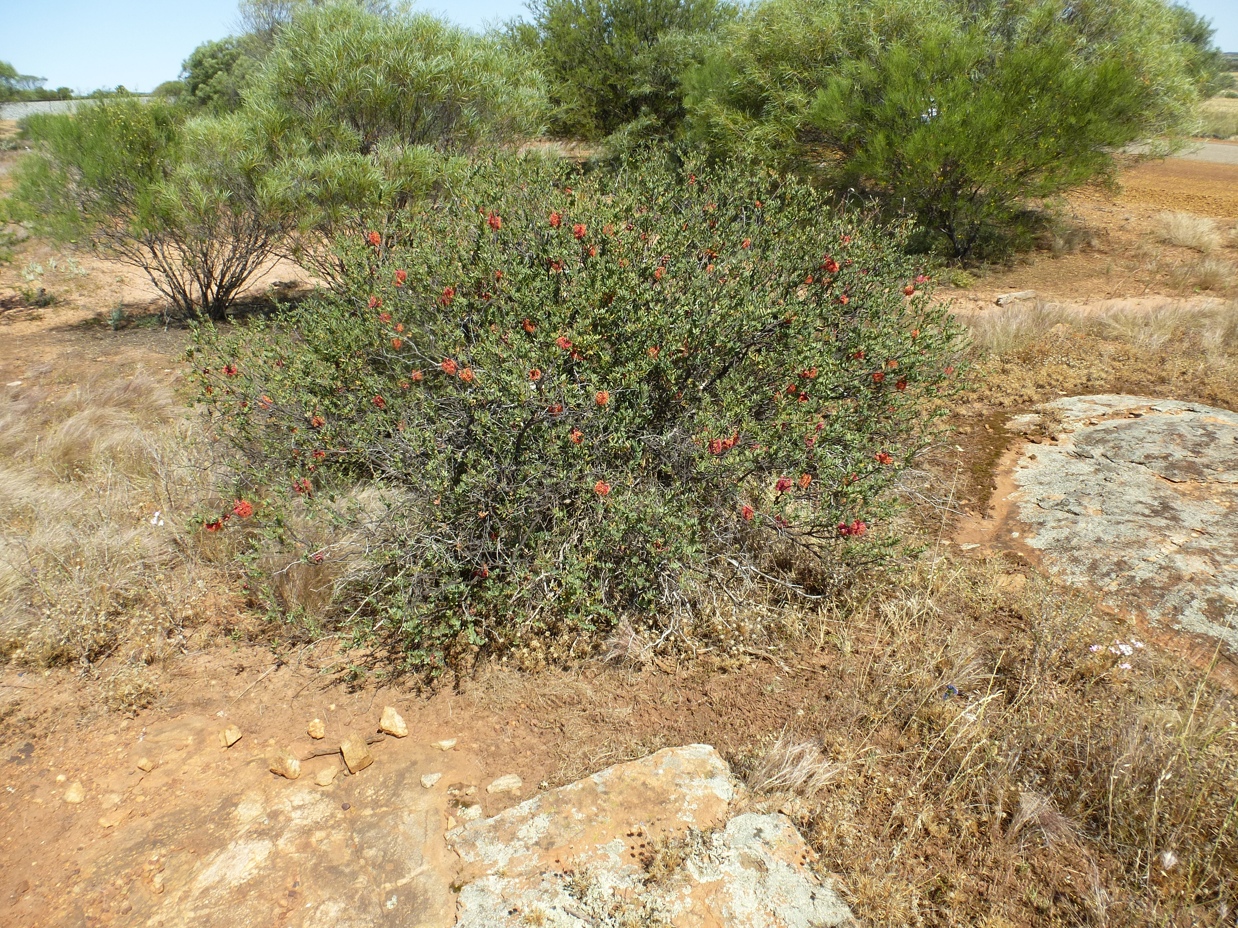 Melaleuca fulgens 10 km S Tardun on the road to Morawa